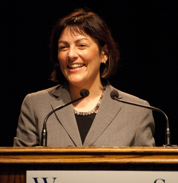 Washington State Democratic Convention 2010 in Vancouver WA - Suzan DelBene